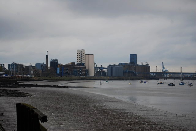 Industrial riverside, Grays